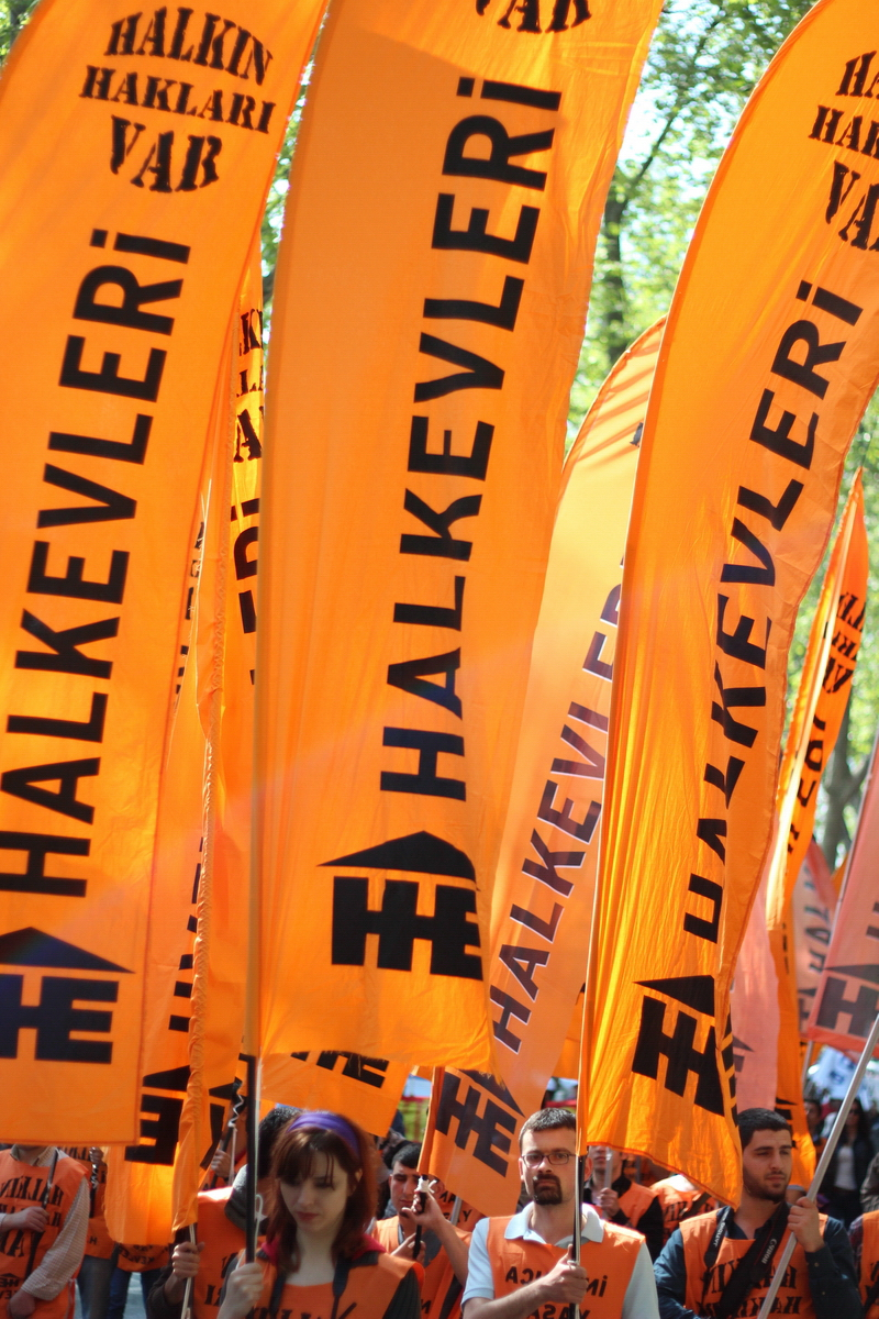 Halkevleri flags may day 2012